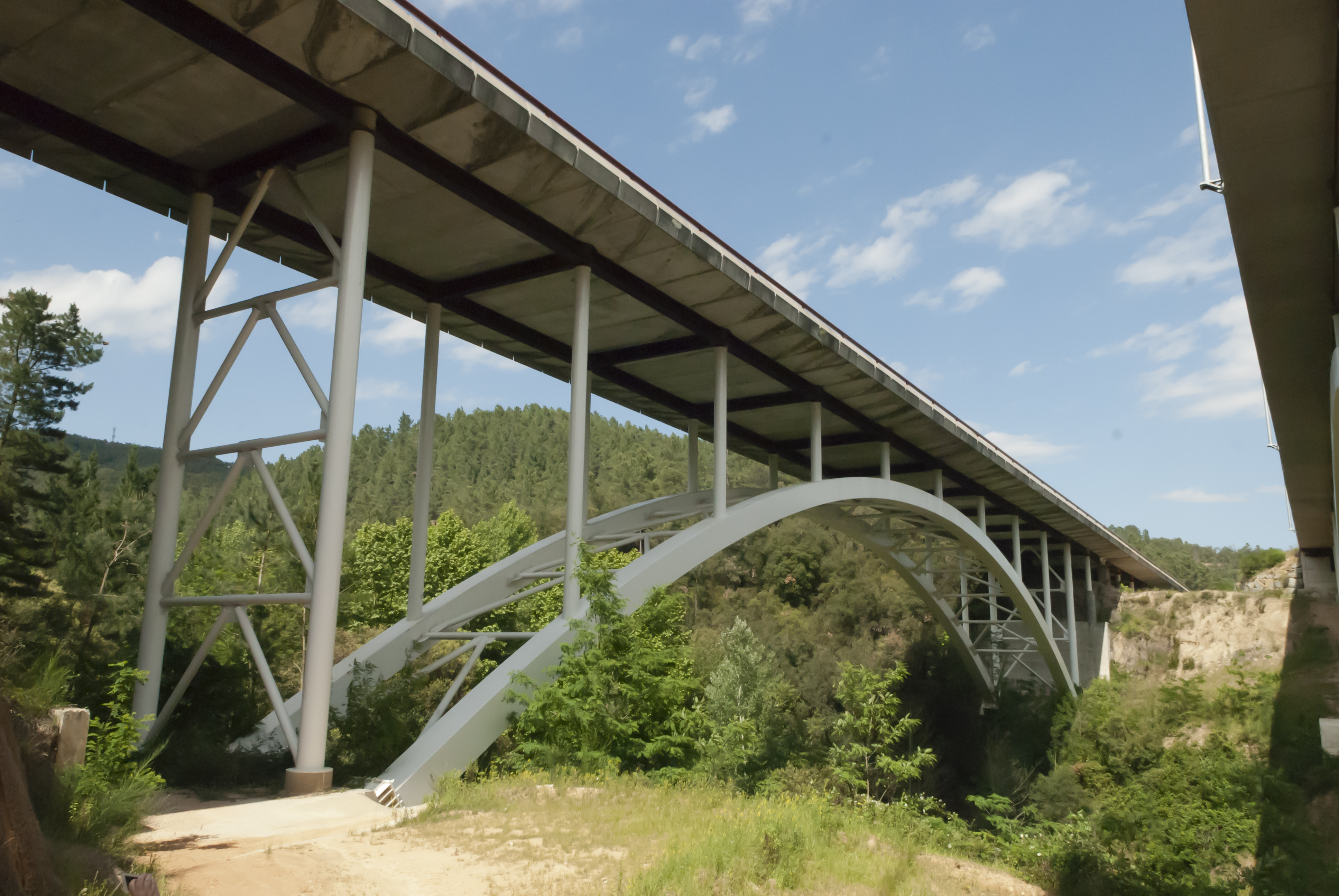 Image of Viaducte de les Foses (Catalonia).